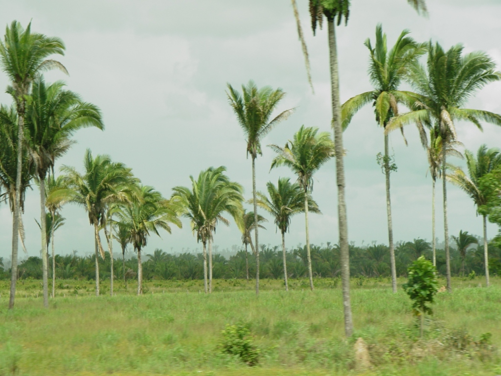 Attalea speciosa on cattle pasture in Maranhão state, Brazil